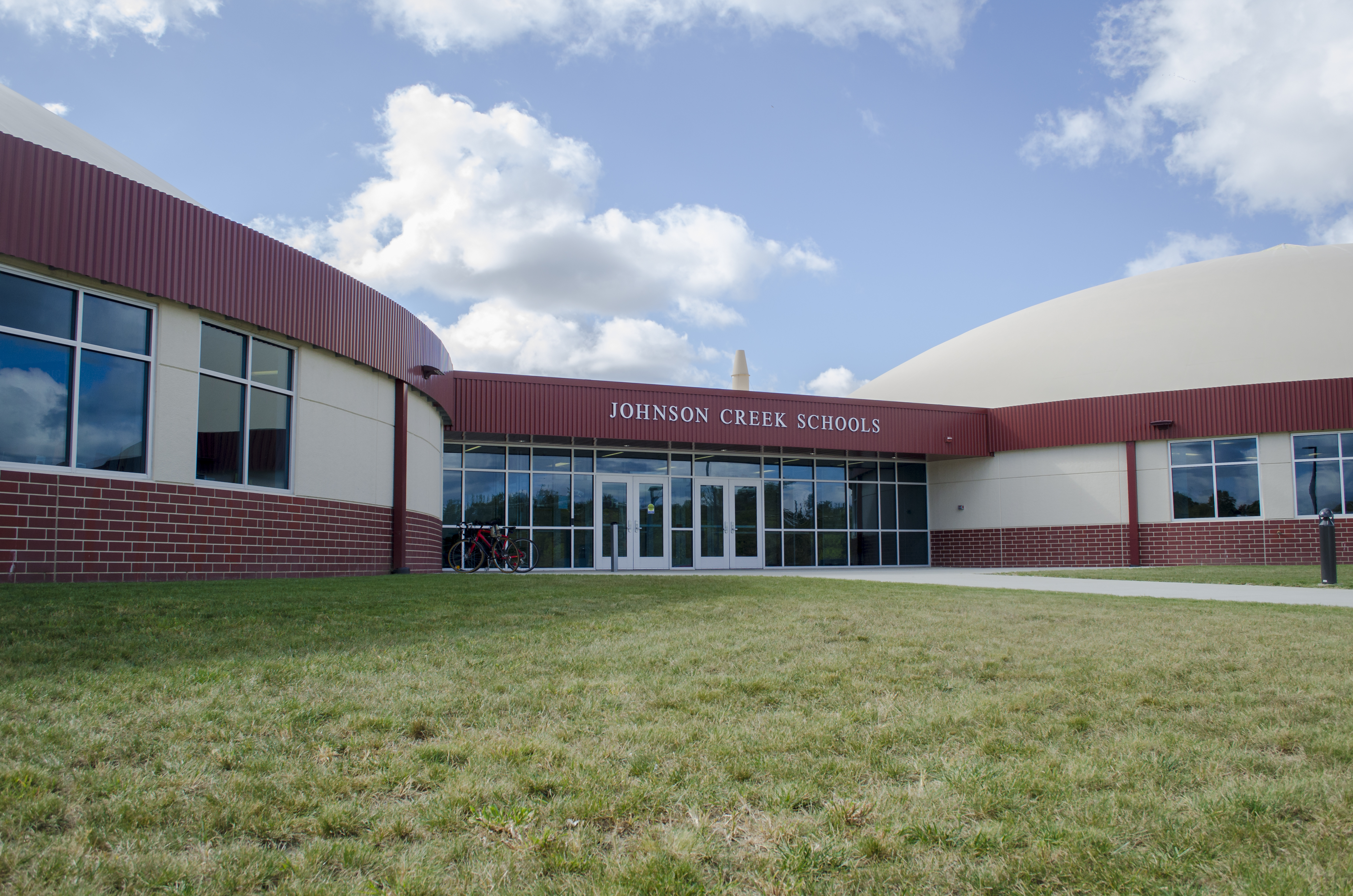 Main entrance to the Johnson Creek Middle/High School Building